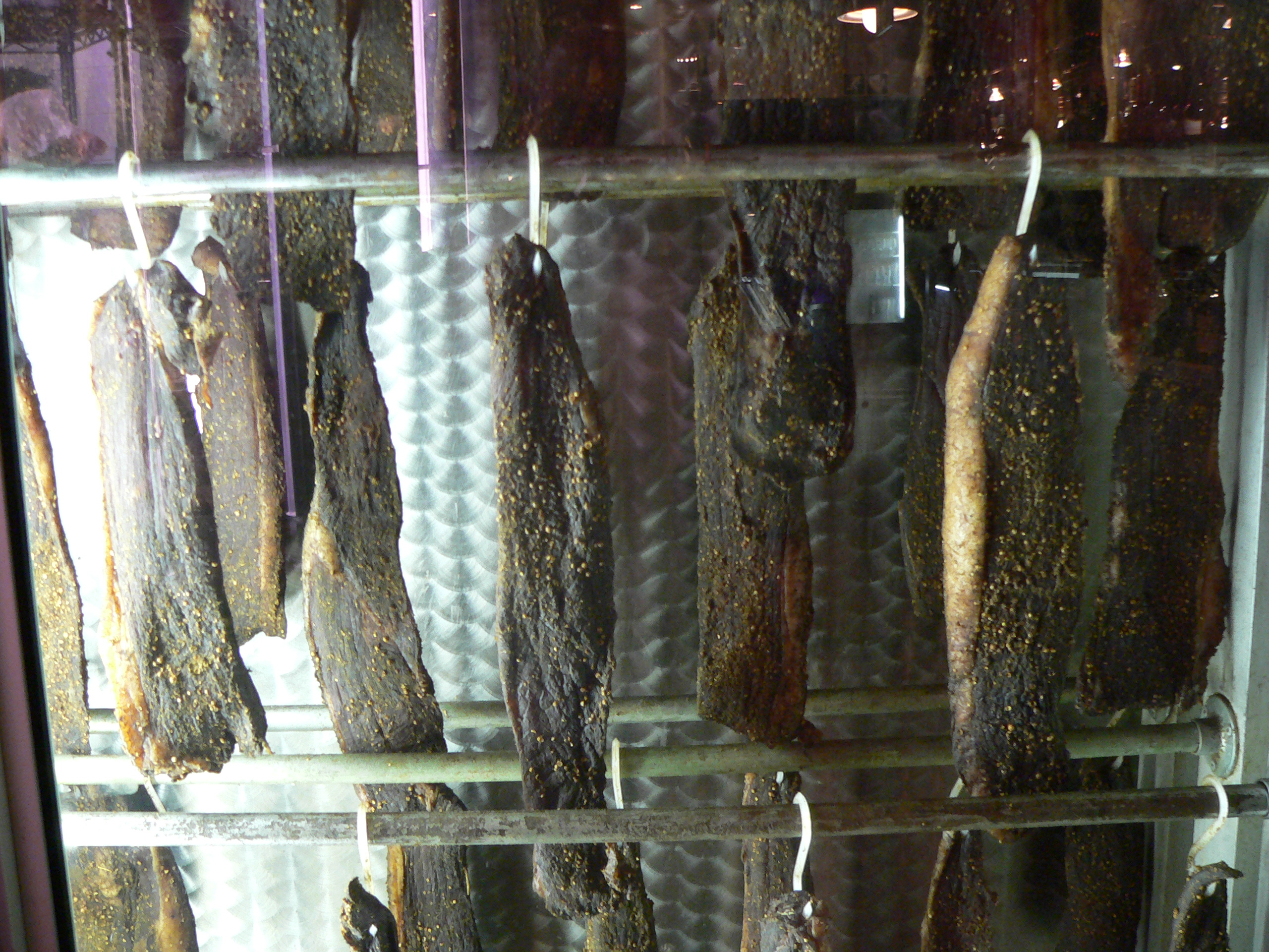 Biltong at The Butcher Shop & Grill, Johannesburg, South Africa